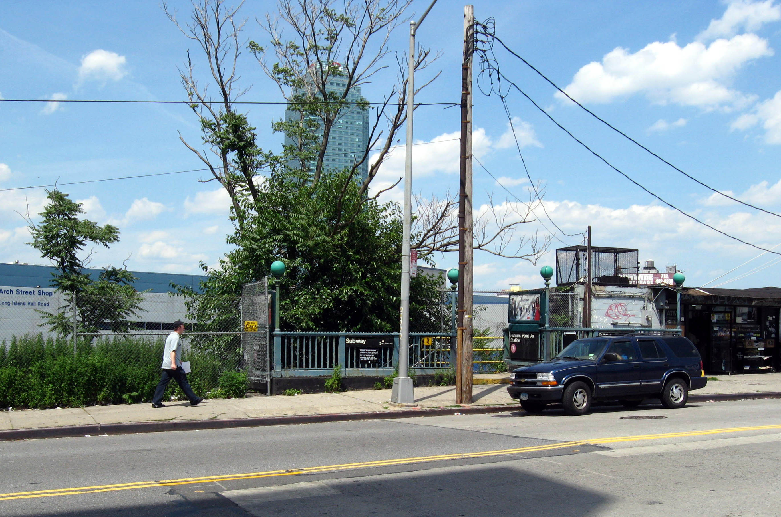 Looking northeast at Hunters Point Avenue (IRT Flushing Line) stair on a sunny early afternoon June 25 2008. One Court Square in background.